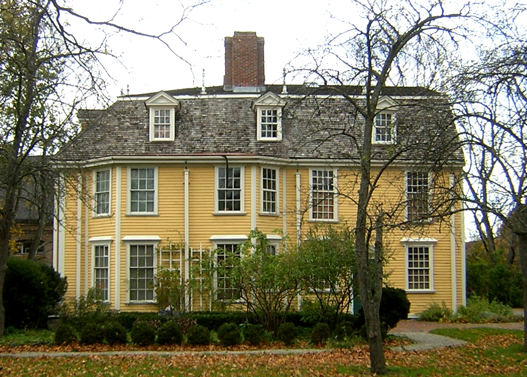 Dorothy Quincy Homestead Quincy MA